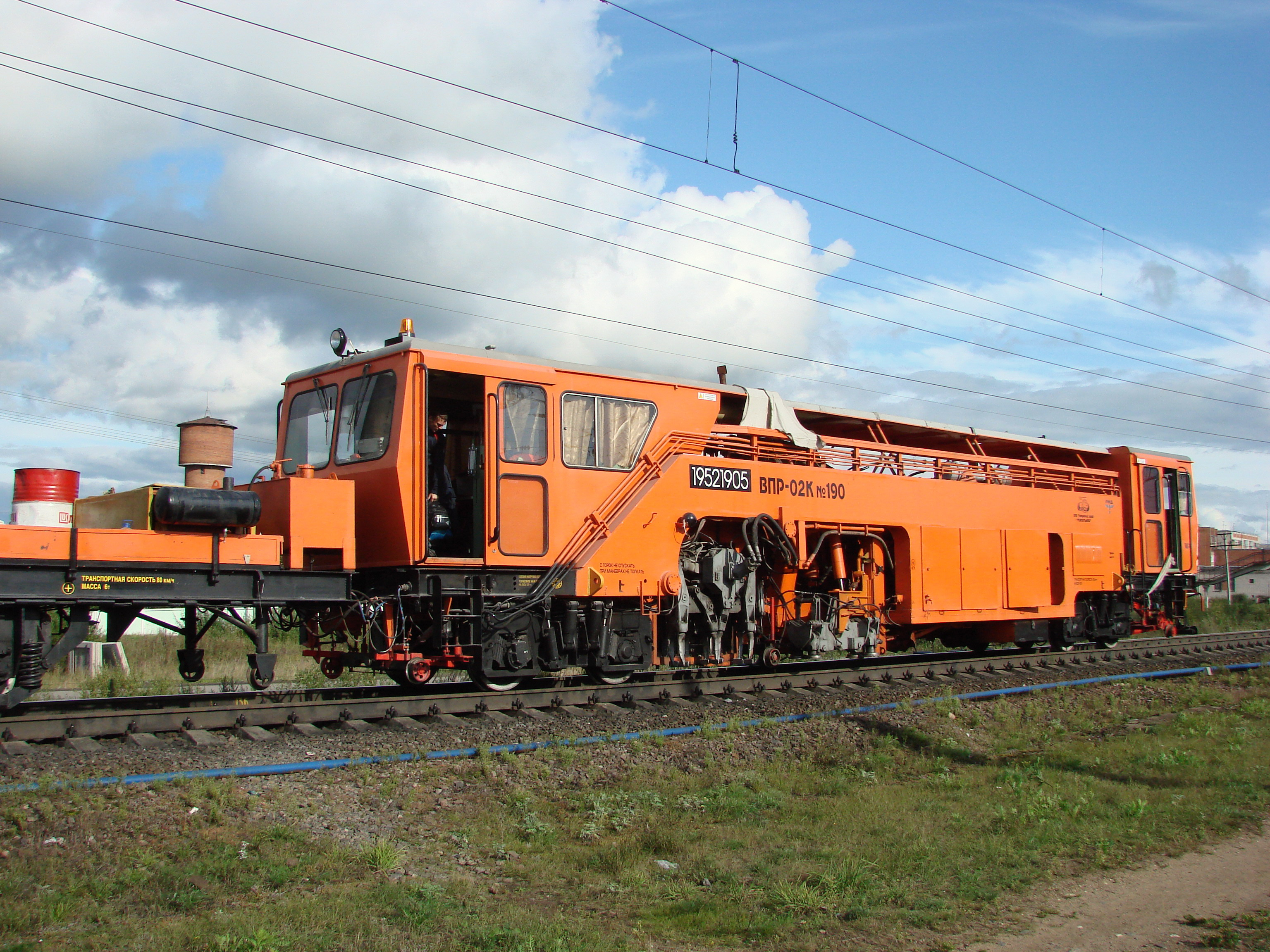 Russian Railways, Rail service vehicle VPR-02K №190